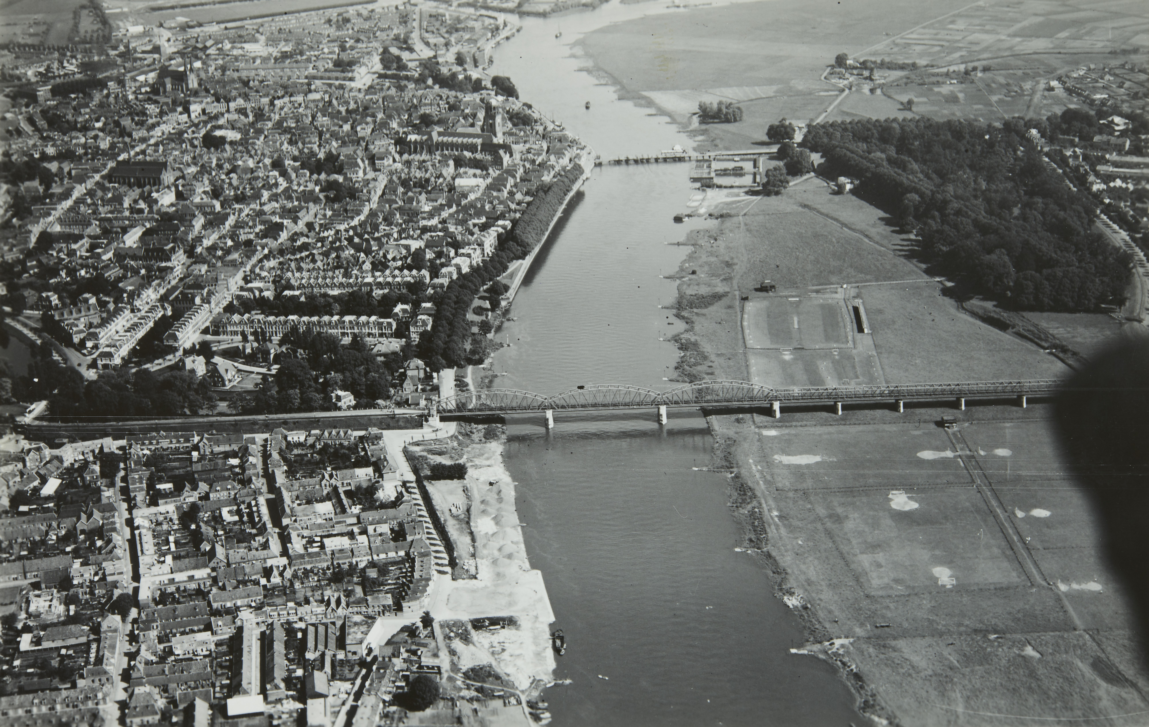 Aerial photograph of Deventer, The Netherlands.